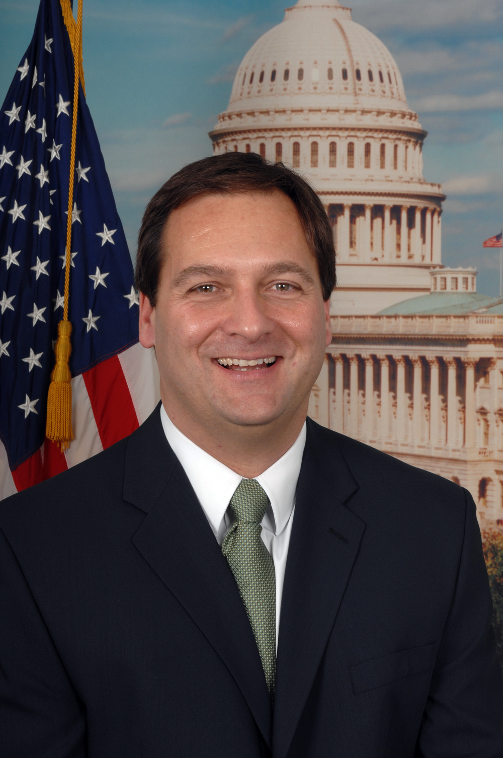 Chris Carney, former member of the United States House of Representatives.